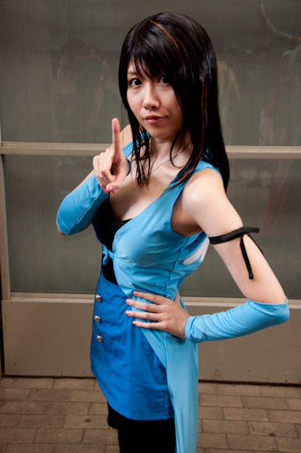 Taken on September 17, 2011 Nikon D90